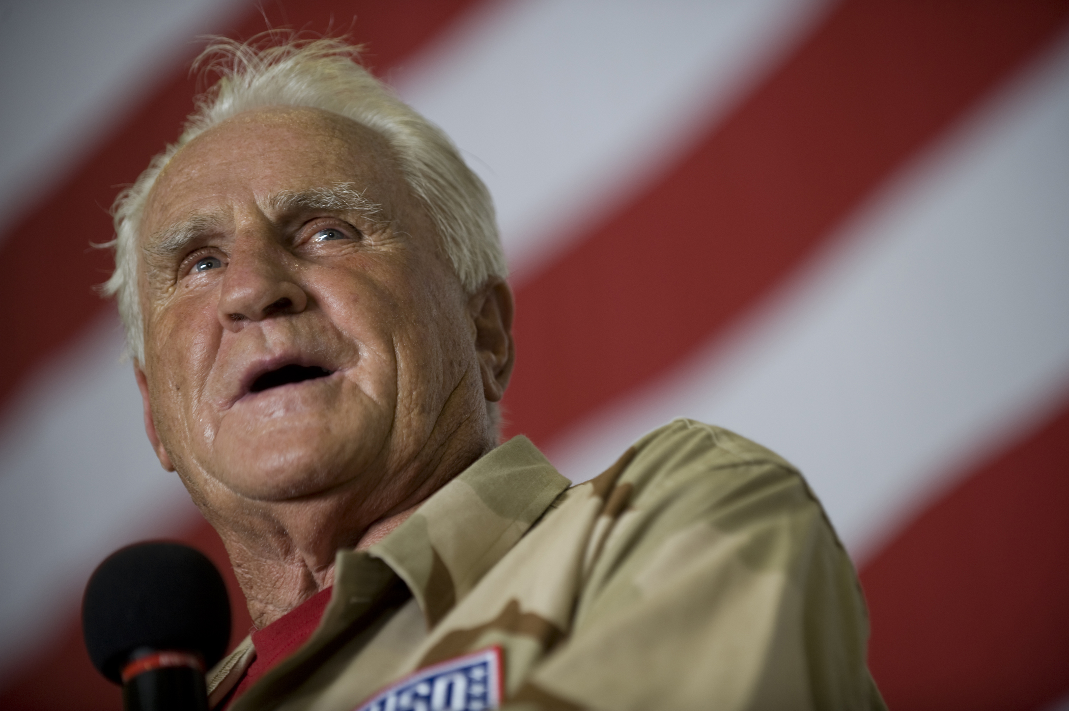 National Football League (NFL) hall of fame coach Don Shula addresses the crew of aircraft carrier USS Ronald Reagan (CVN 76), under way in the Gulf of Oman, July 13, 2009, during a United Service Organizations tour to the U.S. Central Command area of operations. The tour also features all-pro NFL running back Warrick Dunn, actors Bradley Cooper and D.B. Sweeney and sports announcer and model Leeann Sweeden. (DoD photo by Mass Communication Specialist 1st Class Chad J. McNeeley, U.S. Navy/Released)